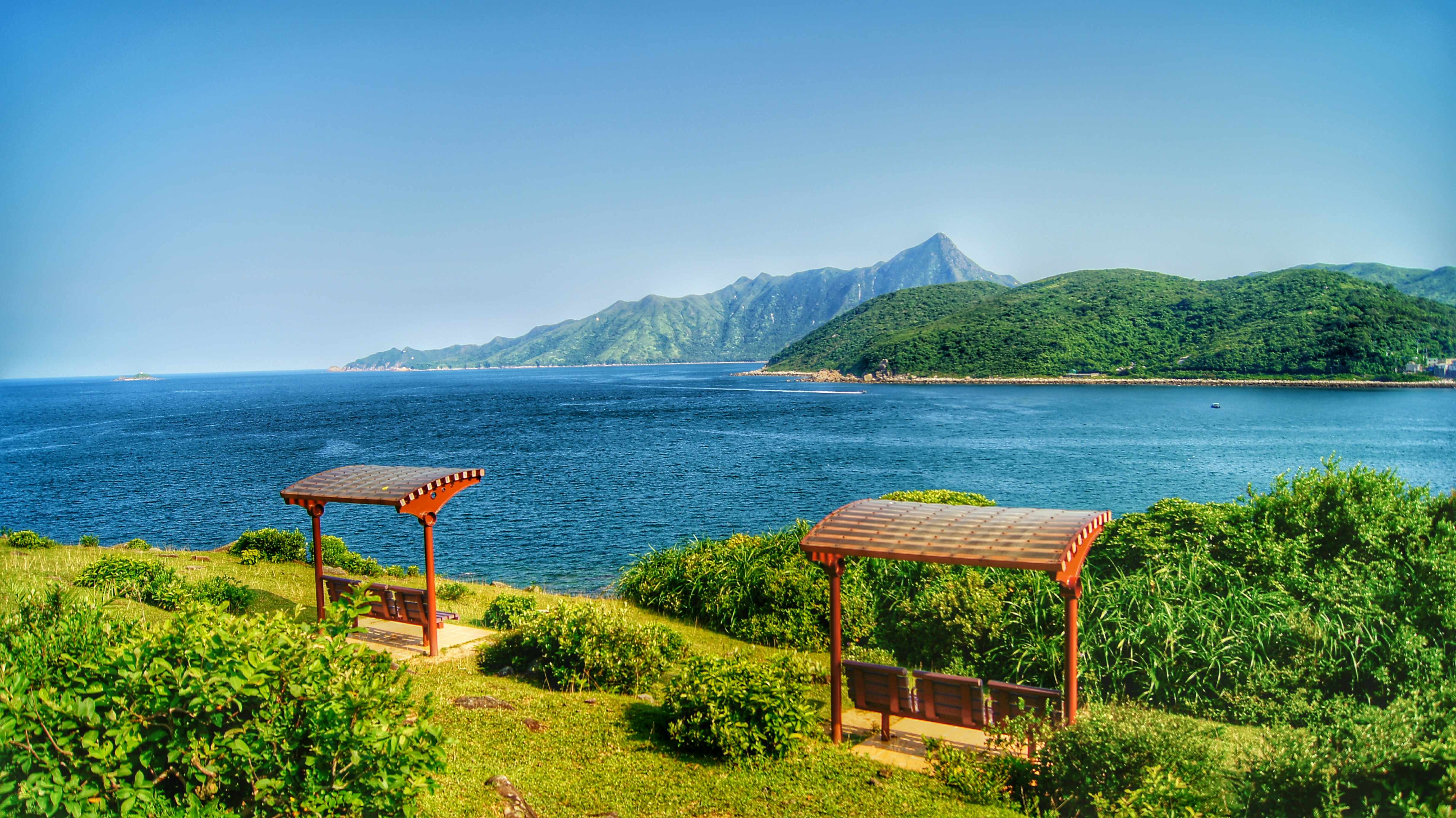 View of Sharp Peak from Grass Island